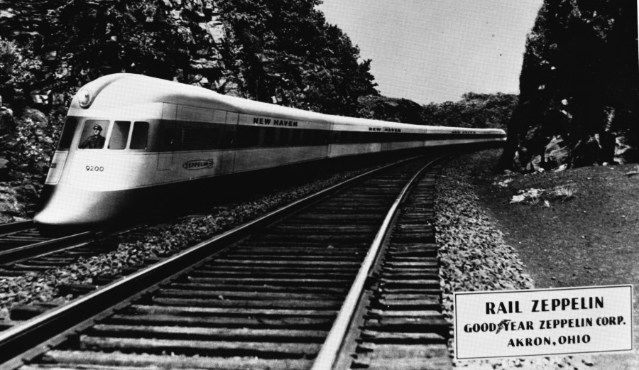 Postcard showing a futuristic looking train on a track. Caption reads RAIL ZEPPELIN, Goodyear Zeppelin Corporation Akron Ohio